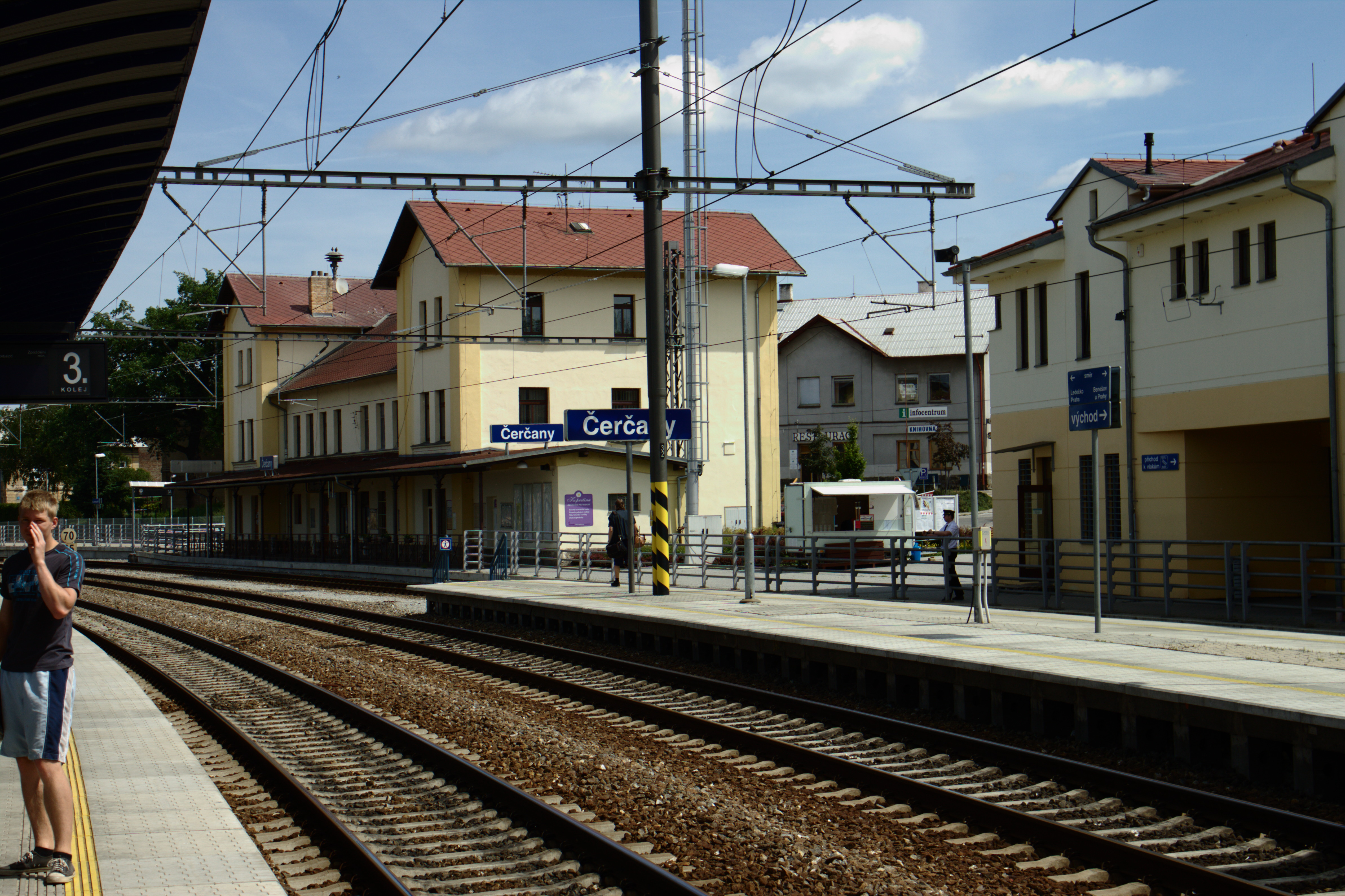 Čerčany train station, Benešov District, CZ